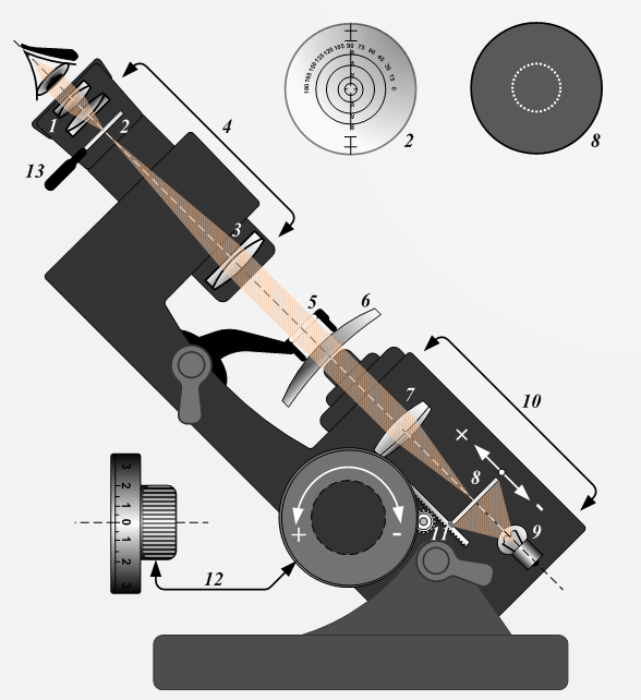 Lensmeter cross sectional view. 1 - The eyepiece 2 – Reticle 3 – Objective lens 4 - Keplerian telescope 5 - Lens Stop 6 – Unknown lens 7 - Collimator objective 8 - Reticle 9 – Light source 10 – Collimator 11 – Mechanism 12 - Power Drum (+20 and -20 Diopters)